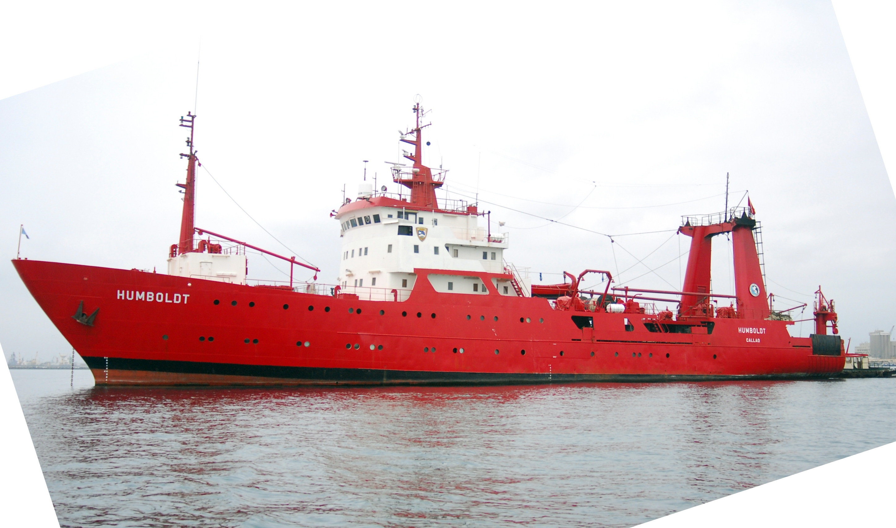 Peruvian oceanographic research vessel, BAP Humboldt, which makes scientific expeditions to Antarctica